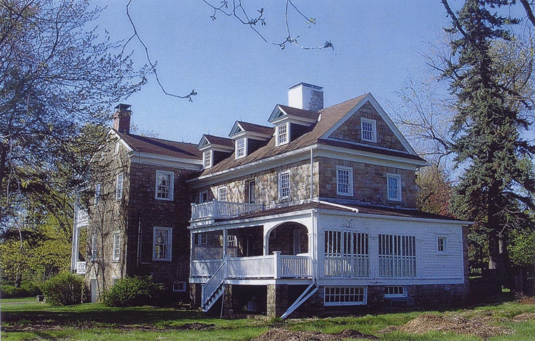 Garden side and rear of the Stone House, the Clemuel Ricketts Mansion — at Ganoga Lake in Sullivan County, Pennsylvania